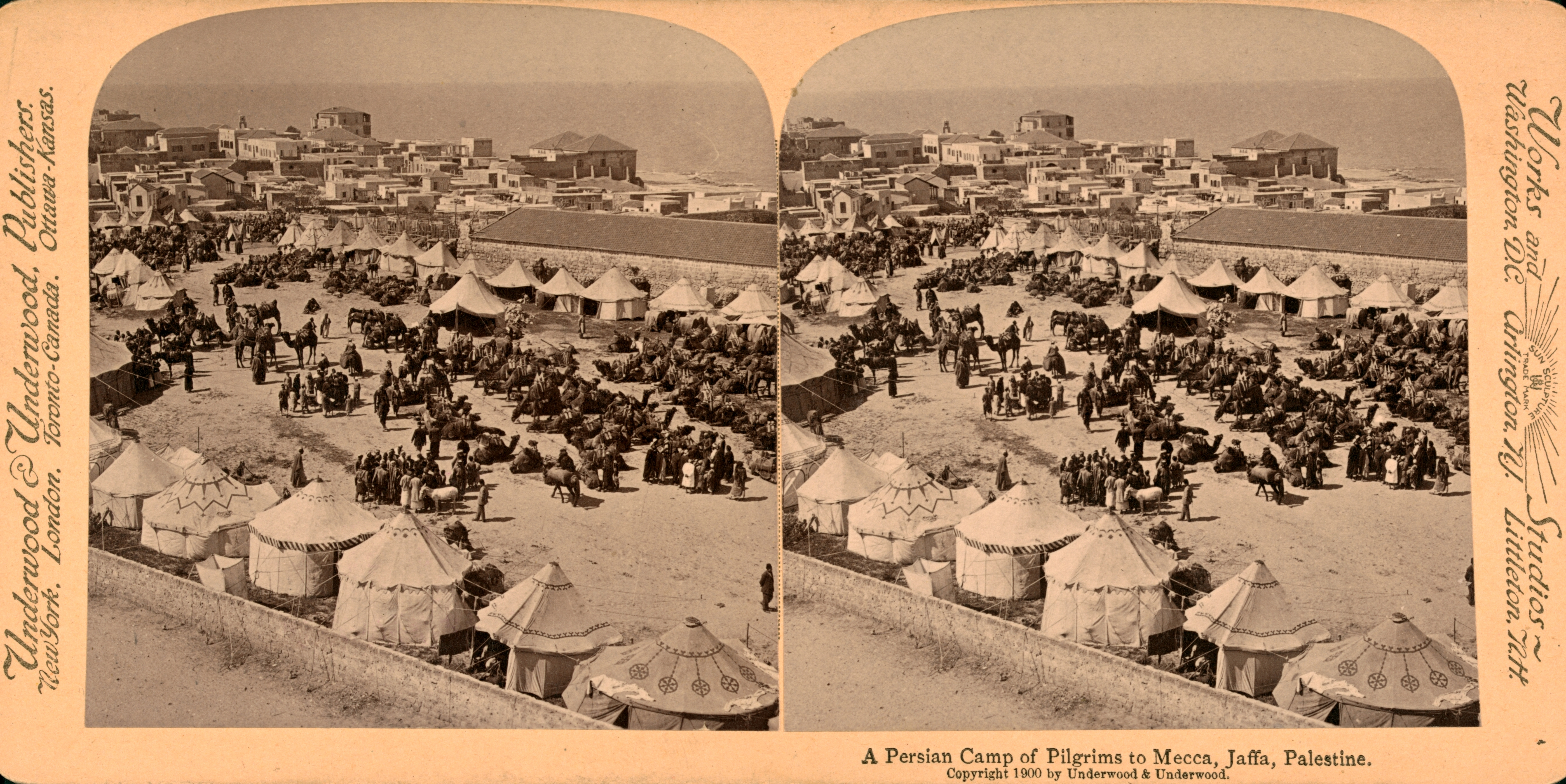 A Persian camp of pilgrims to Mecca, Jaffa, Palestine